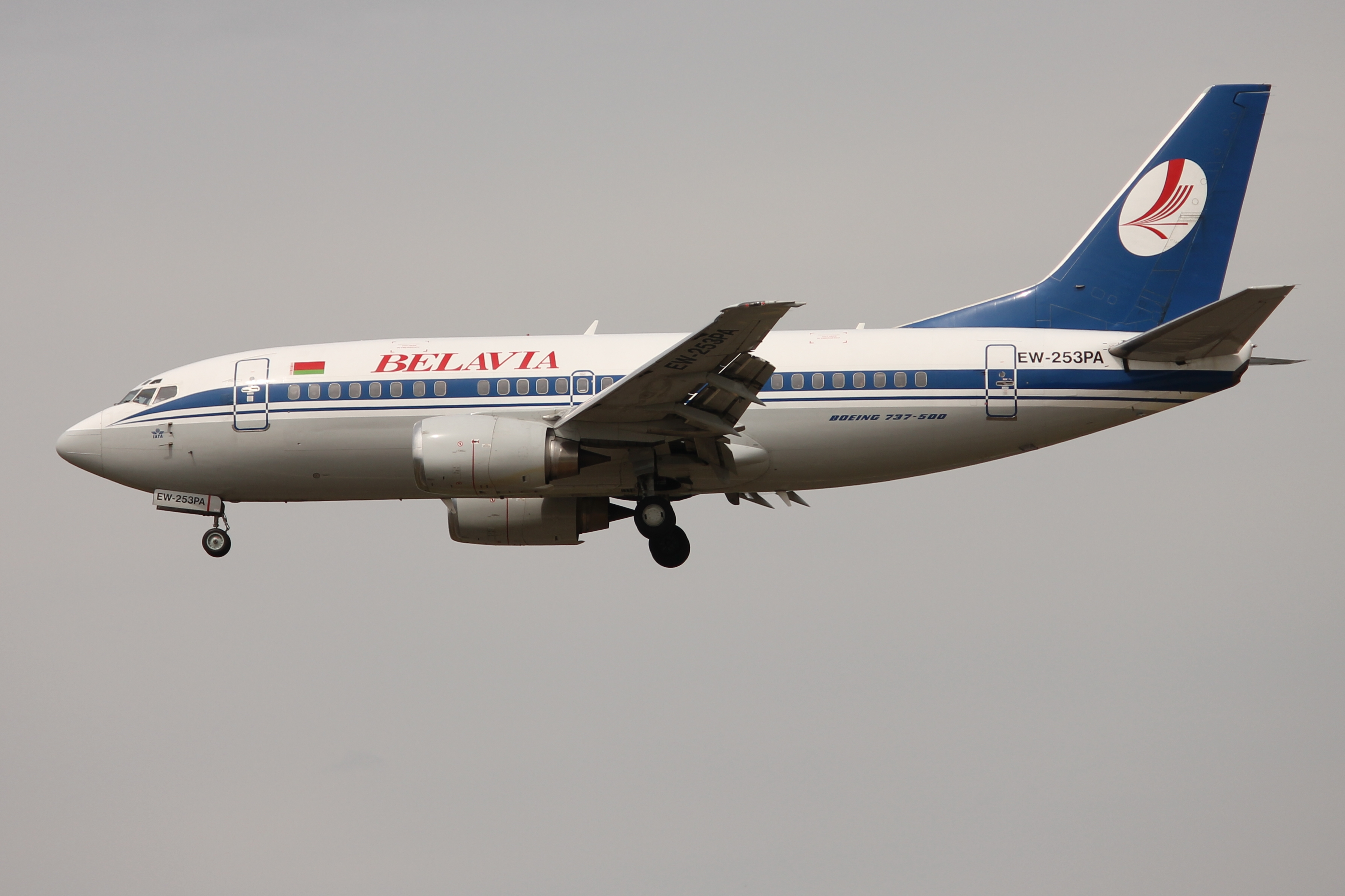 A 737-500 of Belavia